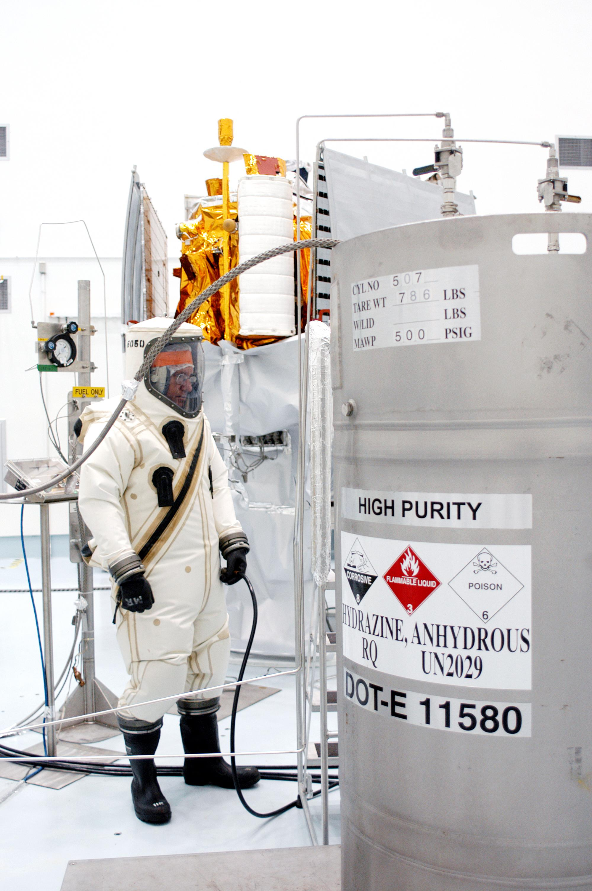 KENNEDY SPACE CENTER, FLA. - A suited worker at Astrotech Space Operations in Titusville, Fla., looks over the fuel supply to be loaded in the MESSENGER (Mercury Surface, Space Environment, Geochemistry and Ranging) spacecraft. Liftoff of MESSENGER aboard a Boeing Delta II Heavy rocket, bound for Mercury, is scheduled for Aug. 2. The spacecraft is expected to reach orbit around the planet in March 2011. MESSENGER was built for NASA by the Johns Hopkins University Applied Physics Laboratory in Laurel, Md.